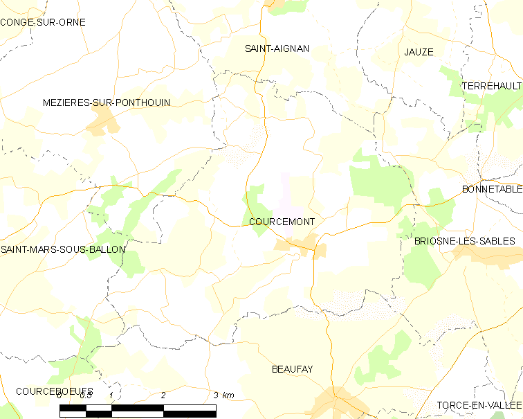 Map of French municipality